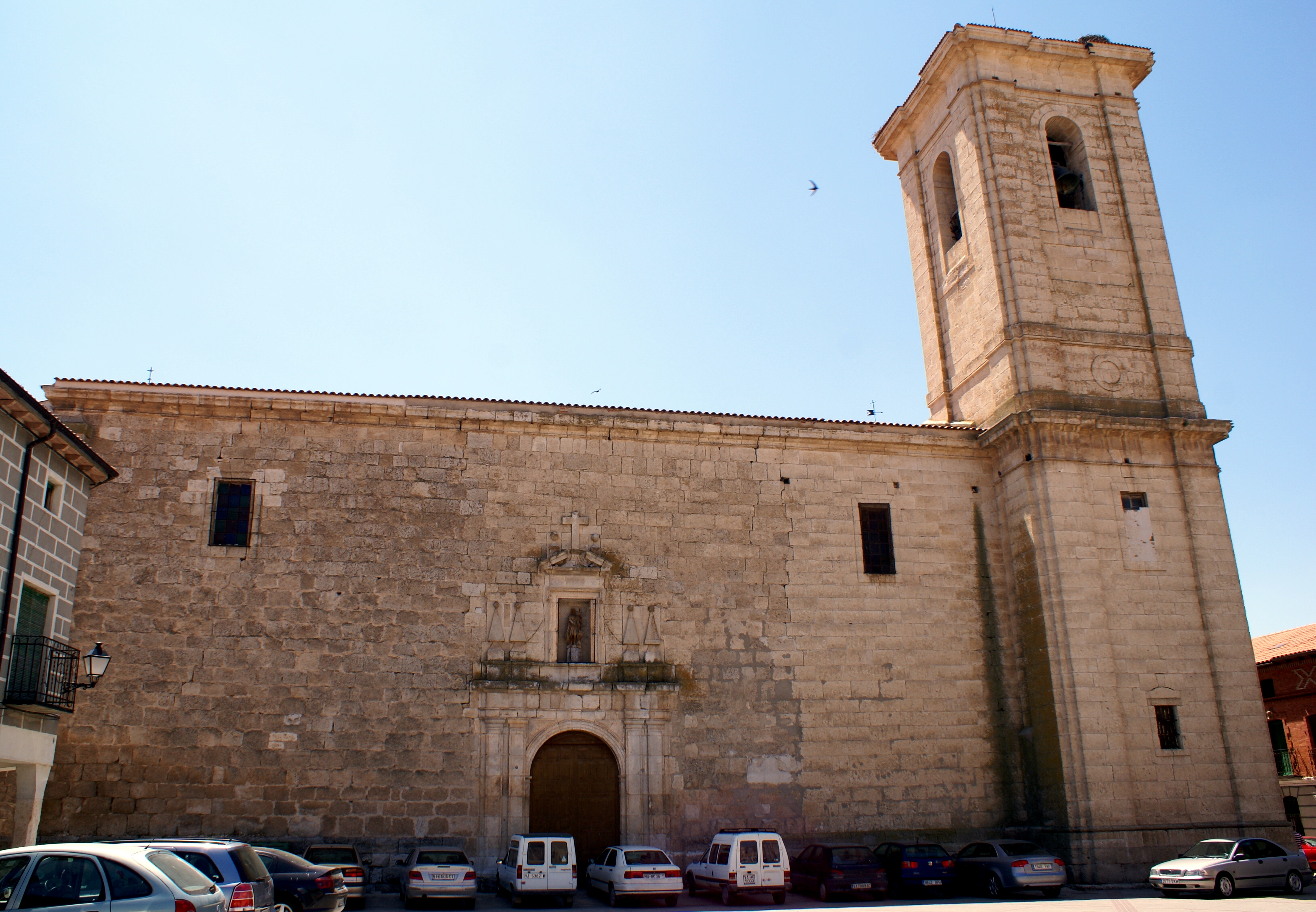 Church of John the Baptist in Pesquera de Duero, Valladolid, Spain.